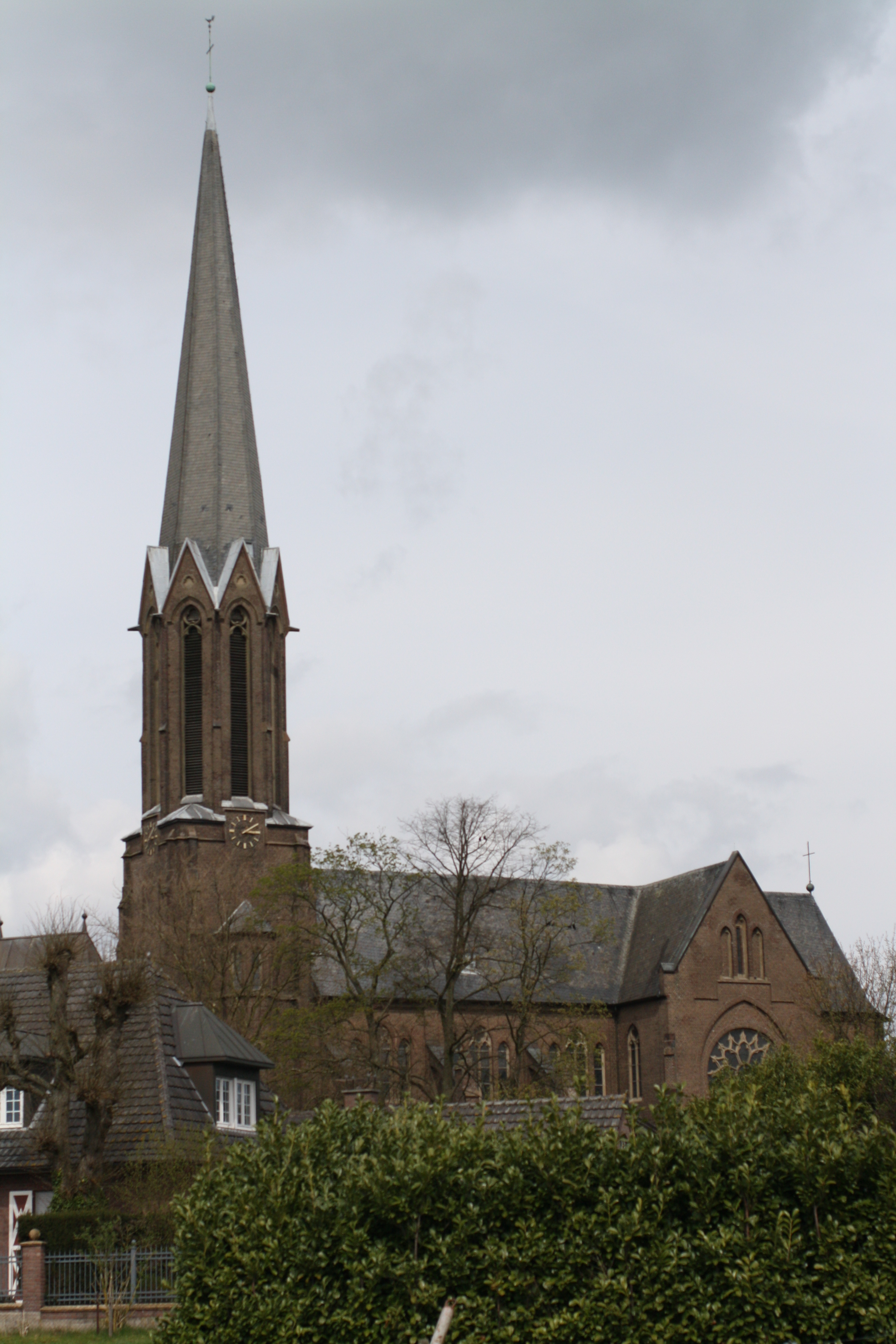 St. George's church in Hüthum, Emmerich, North Rhine-Westphalia, Germany